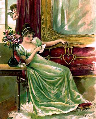 Detail from "Cupid's Greeting", a late 19th-century / early 20th-century Valentine published in U.S. This is an example of the depiction of vague early 19th-century (pseudo-Regency) styles in order to convey a quaint old-timey feel.